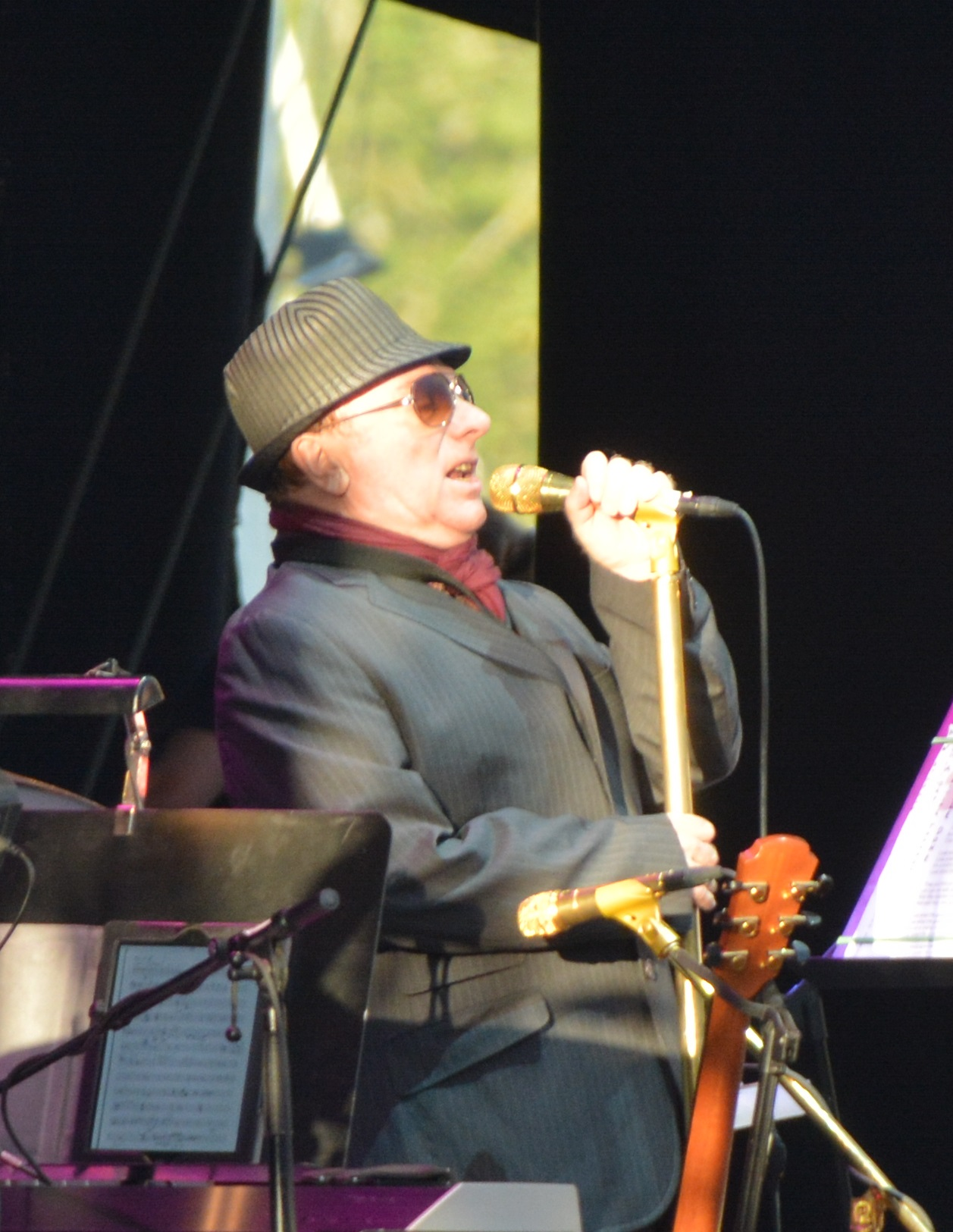 Van Morrison at outdoors concert in Stockholm, Sweden, August 2